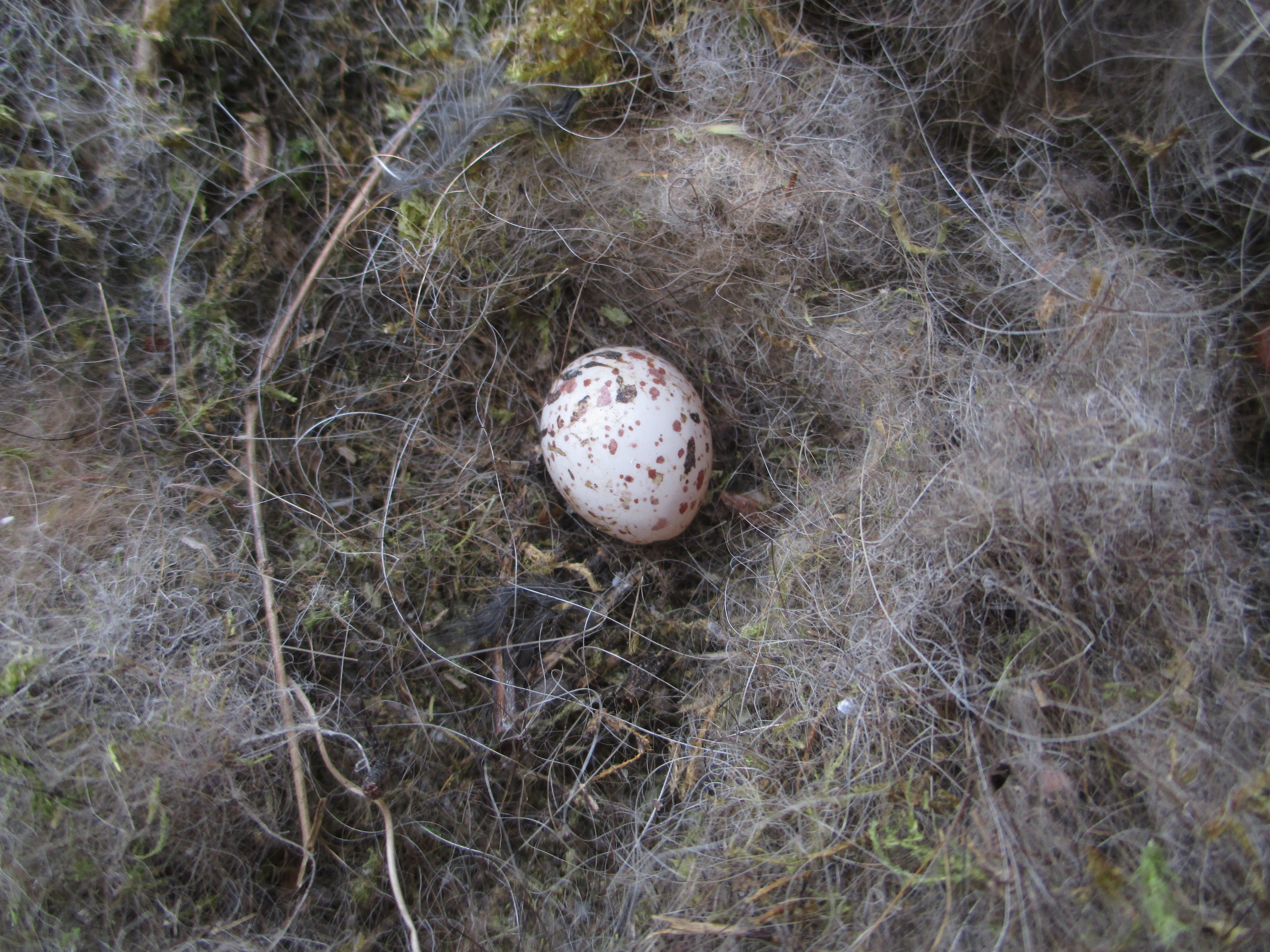 Great tit's nest with egg